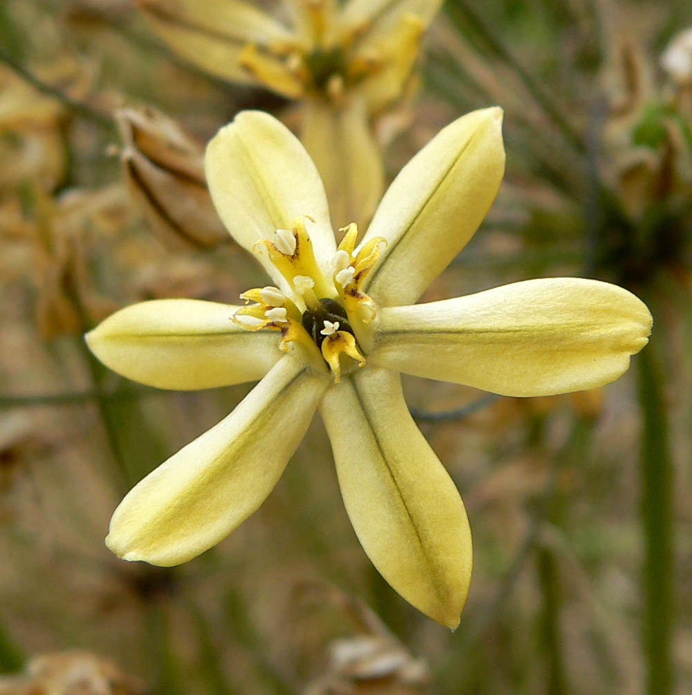 Photo of Triteleia ixioides ssp. scabra at the University of California Botanical Garden